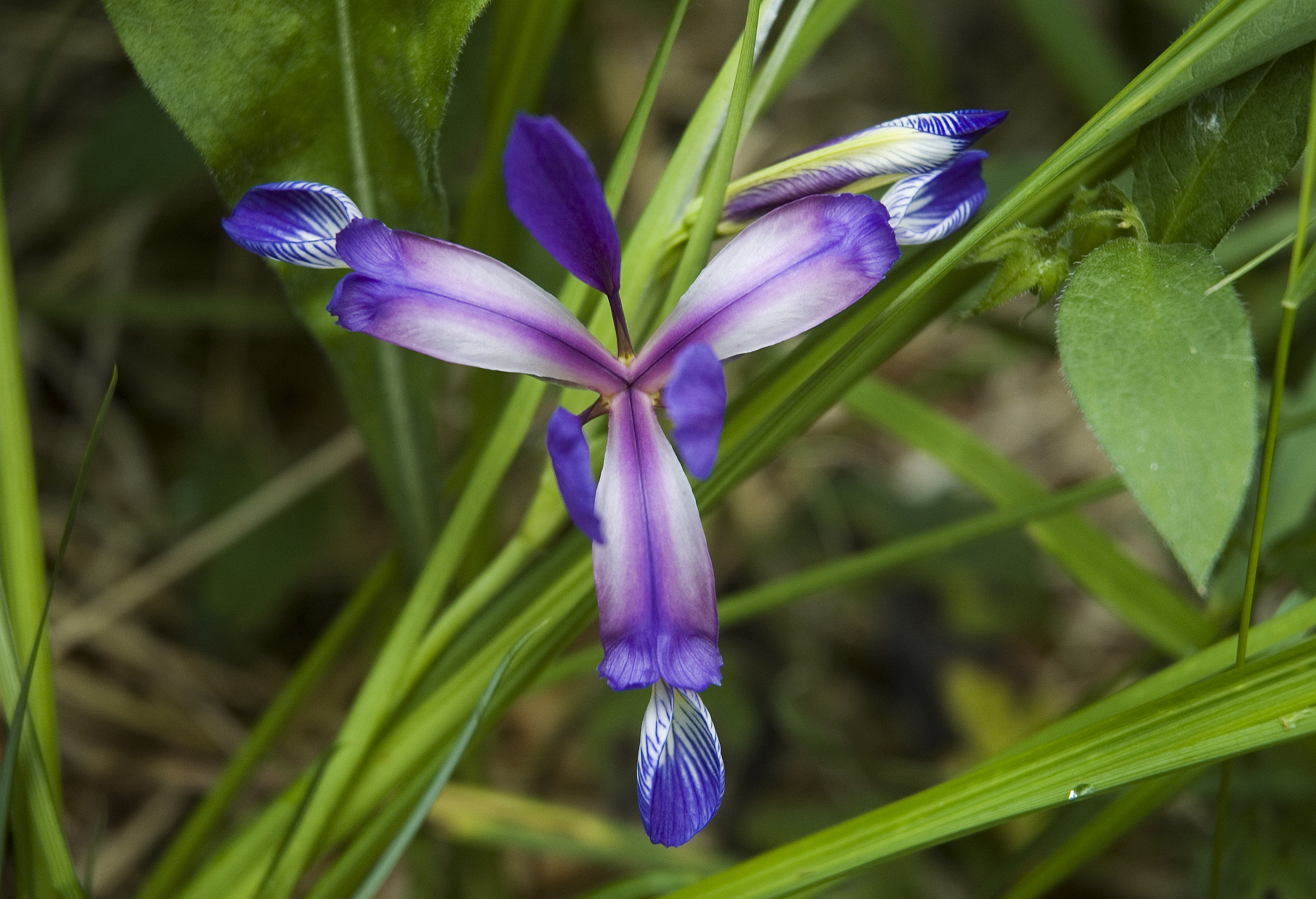 Iris graminea, Iridaceae, Grassy Leaved Iris